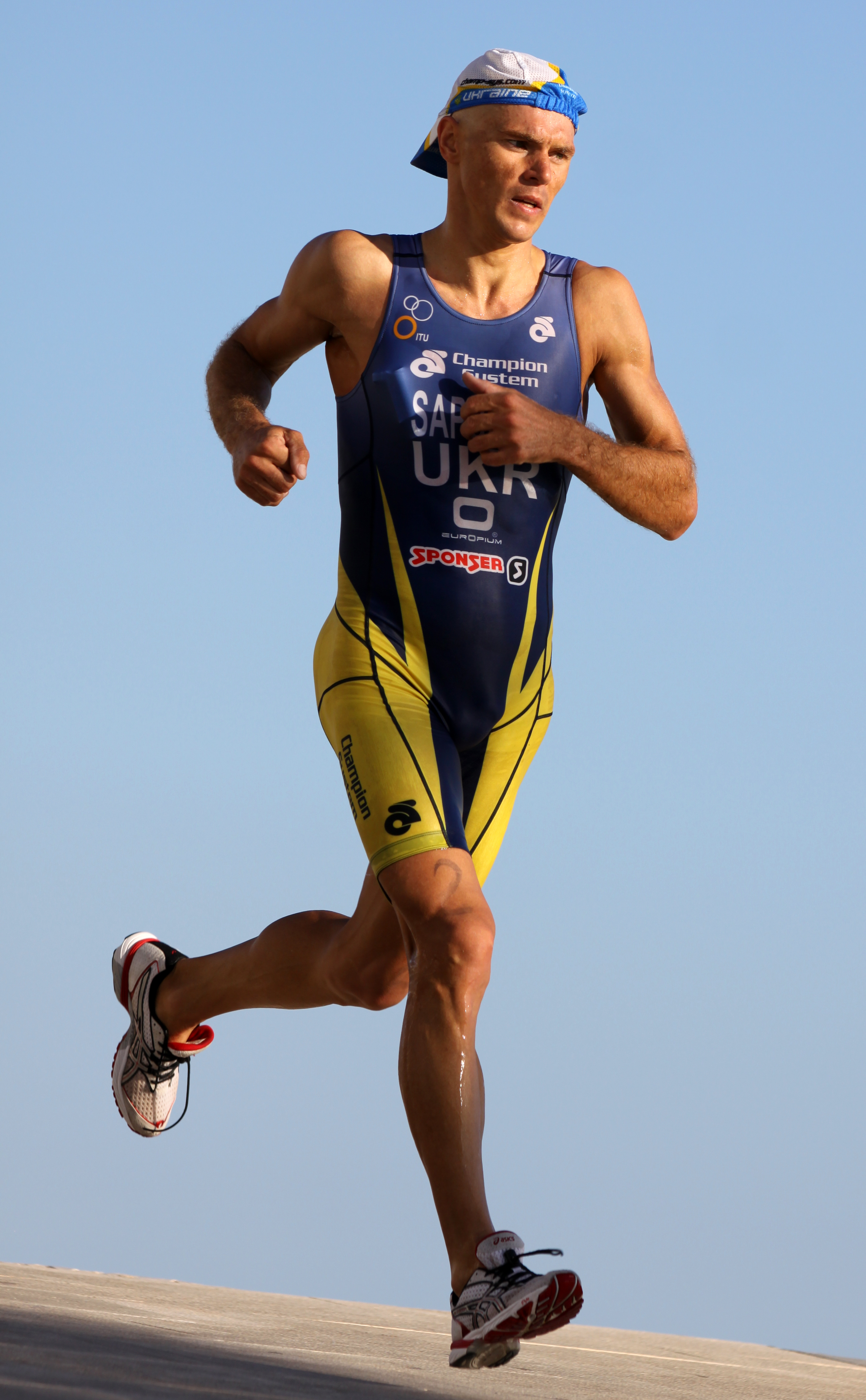 Danylo Sapunov at the European Cup triathlon in Quarteira, 2011.